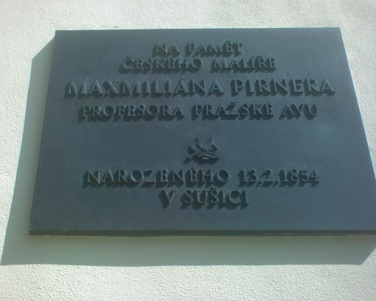 Max Pirner (SUŠICE)